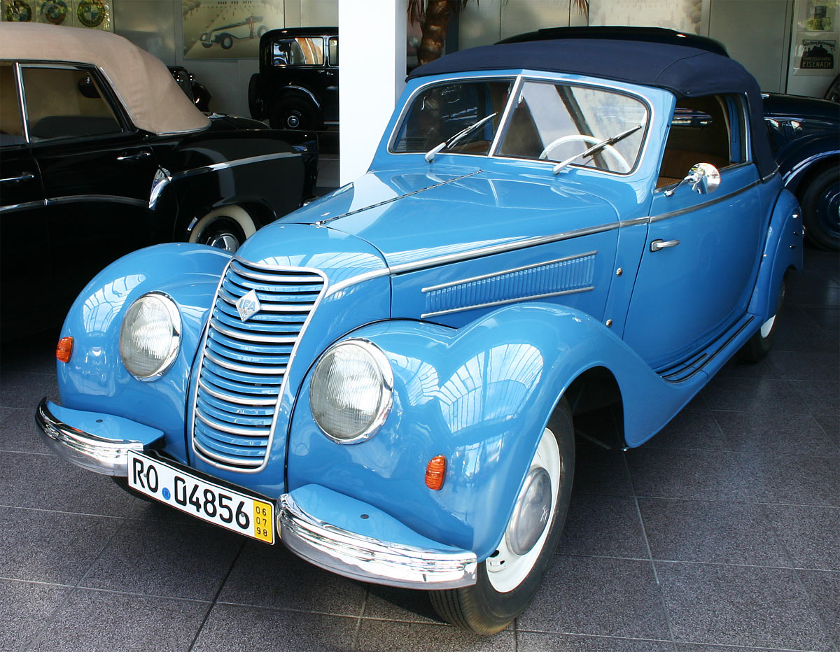 IFA F8